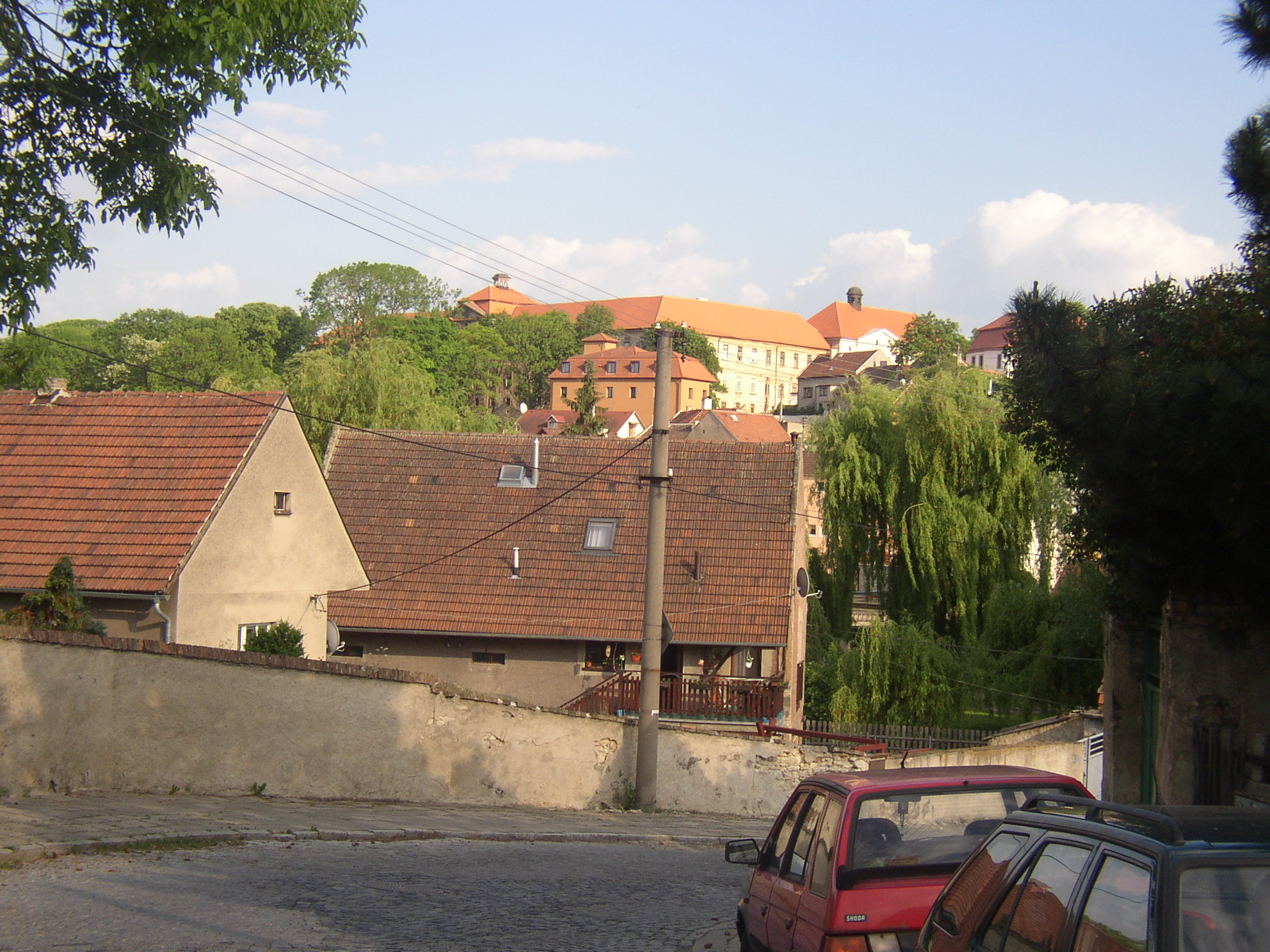 Buštěhrad Chateau, Kladno District, Czech Republic. General view from the NW.